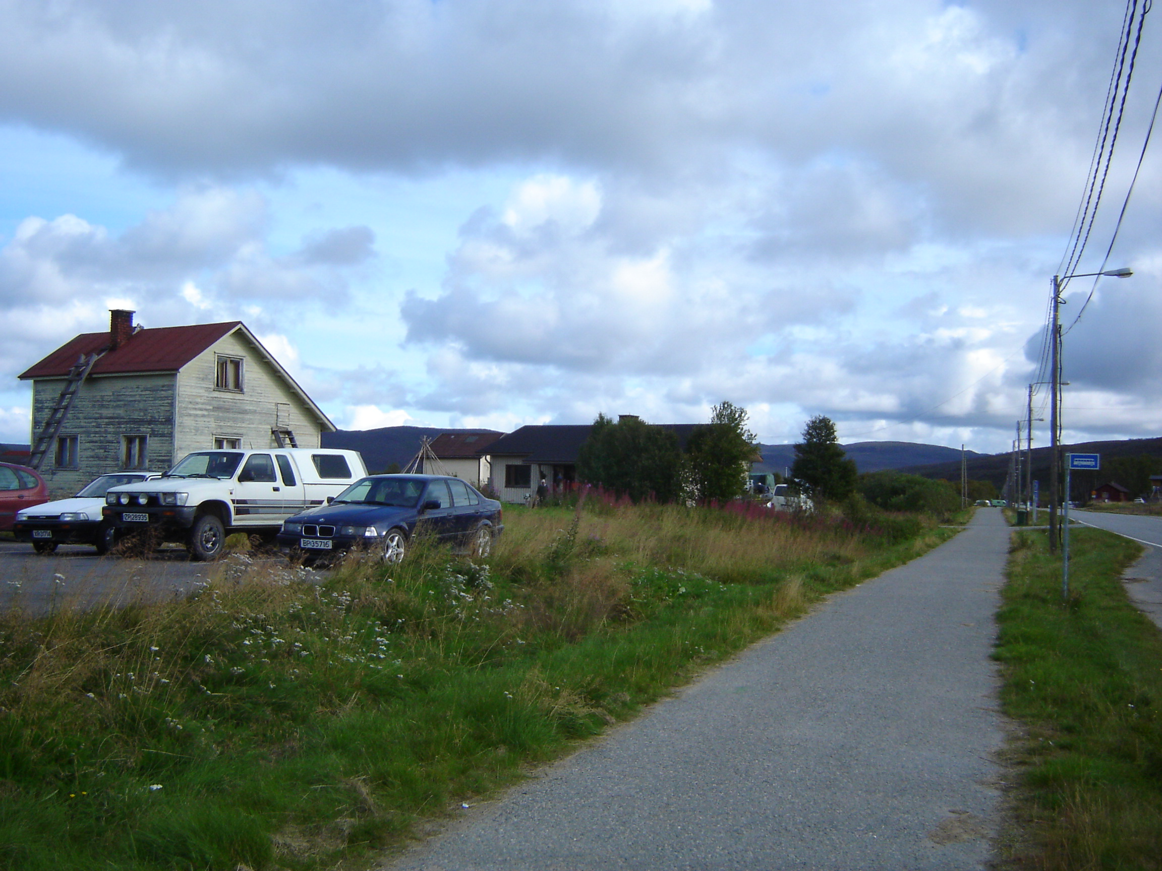 View of the village of Nuorgam, Utsjoki municipality, Finland